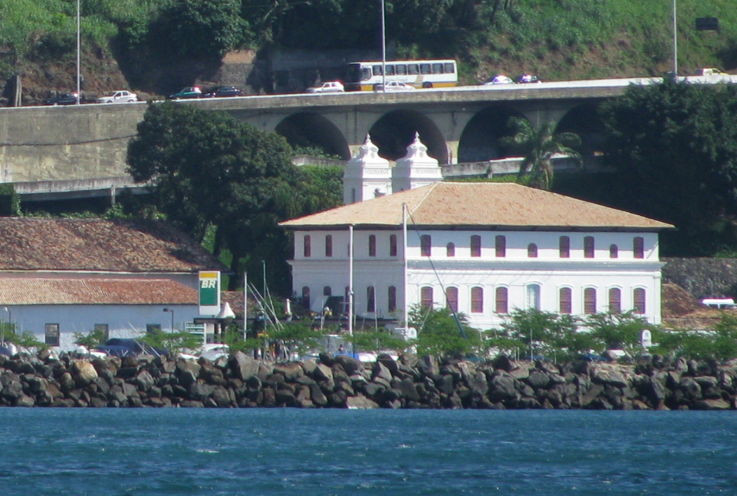 Solar do Unhão (Unhão House) in Salvador, Bahia, Brazil